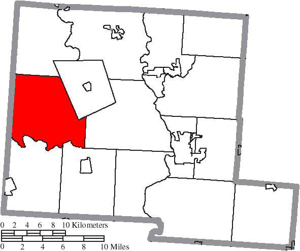 Map of the municipal and township boundaries of Pickaway County, Ohio, United States, as of the 2000 census, with the location of Monroe Township highlighted. Township borders are shown only in unincorporated areas in order to differentiate incorporated and unincorporated areas more clearly.